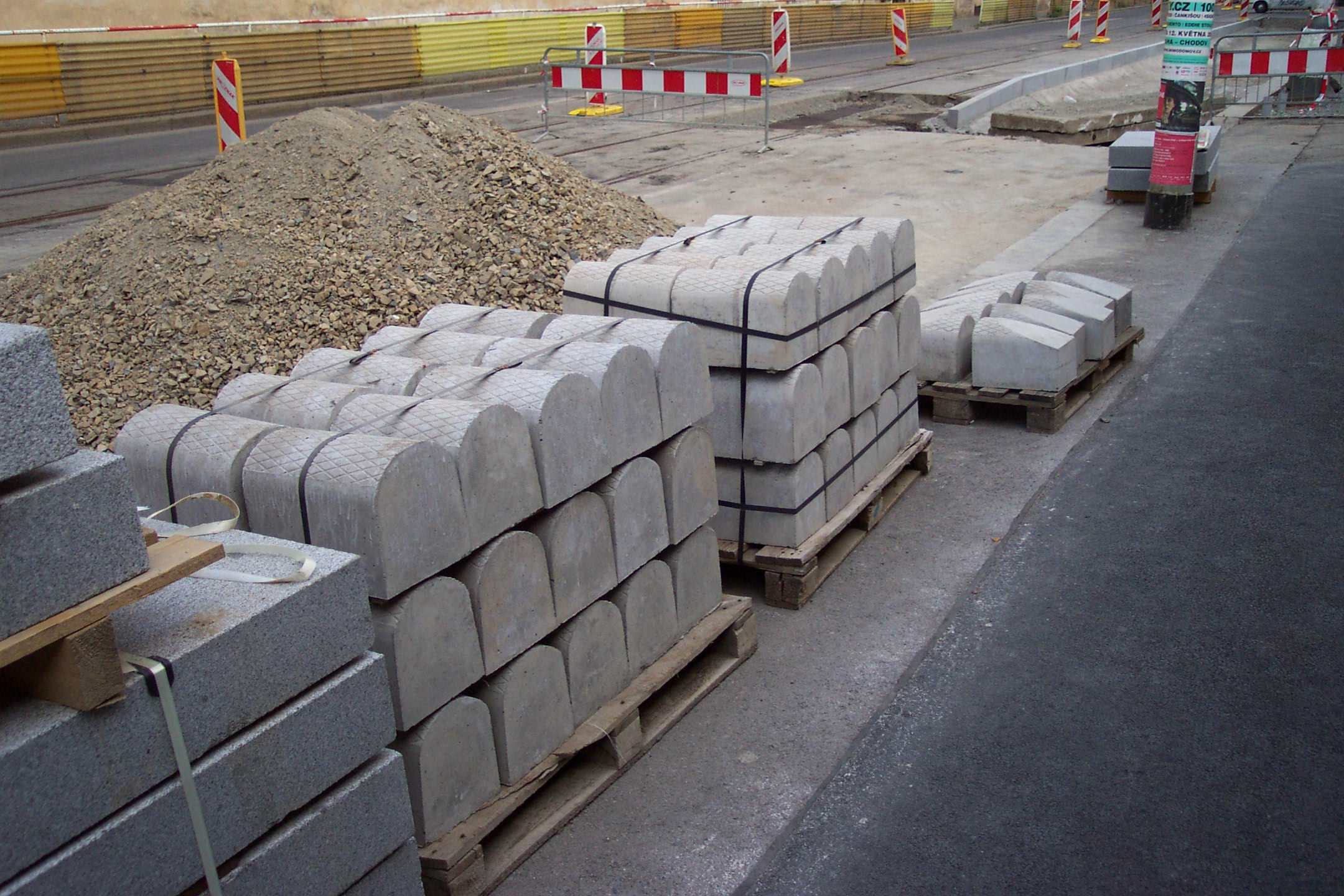 Obrubníky znemožňující vjezd na tramvajový pás - stones blocking cars to enter the tram lane, ready to be installed into road during the reconstruction